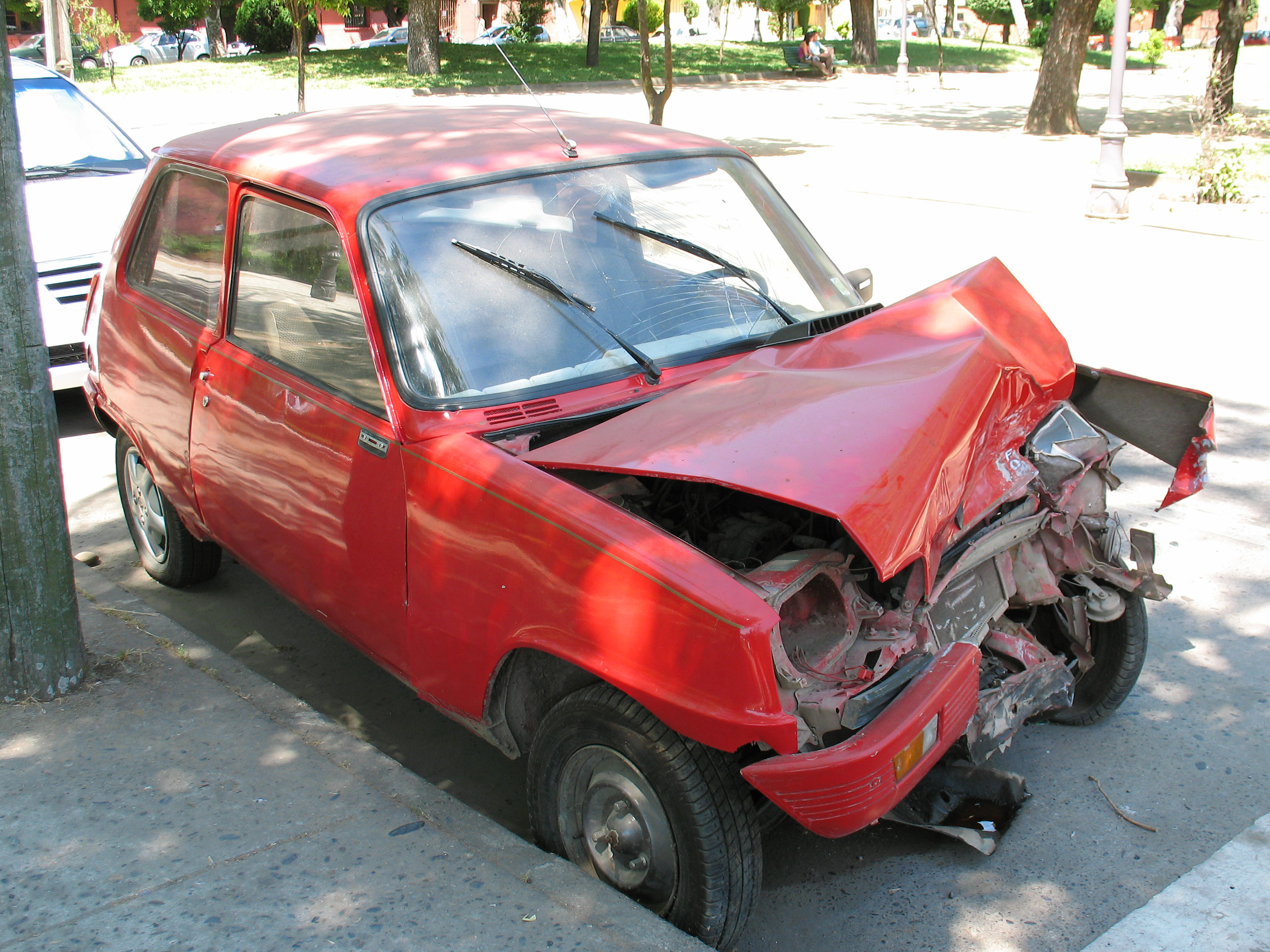 wrecked car